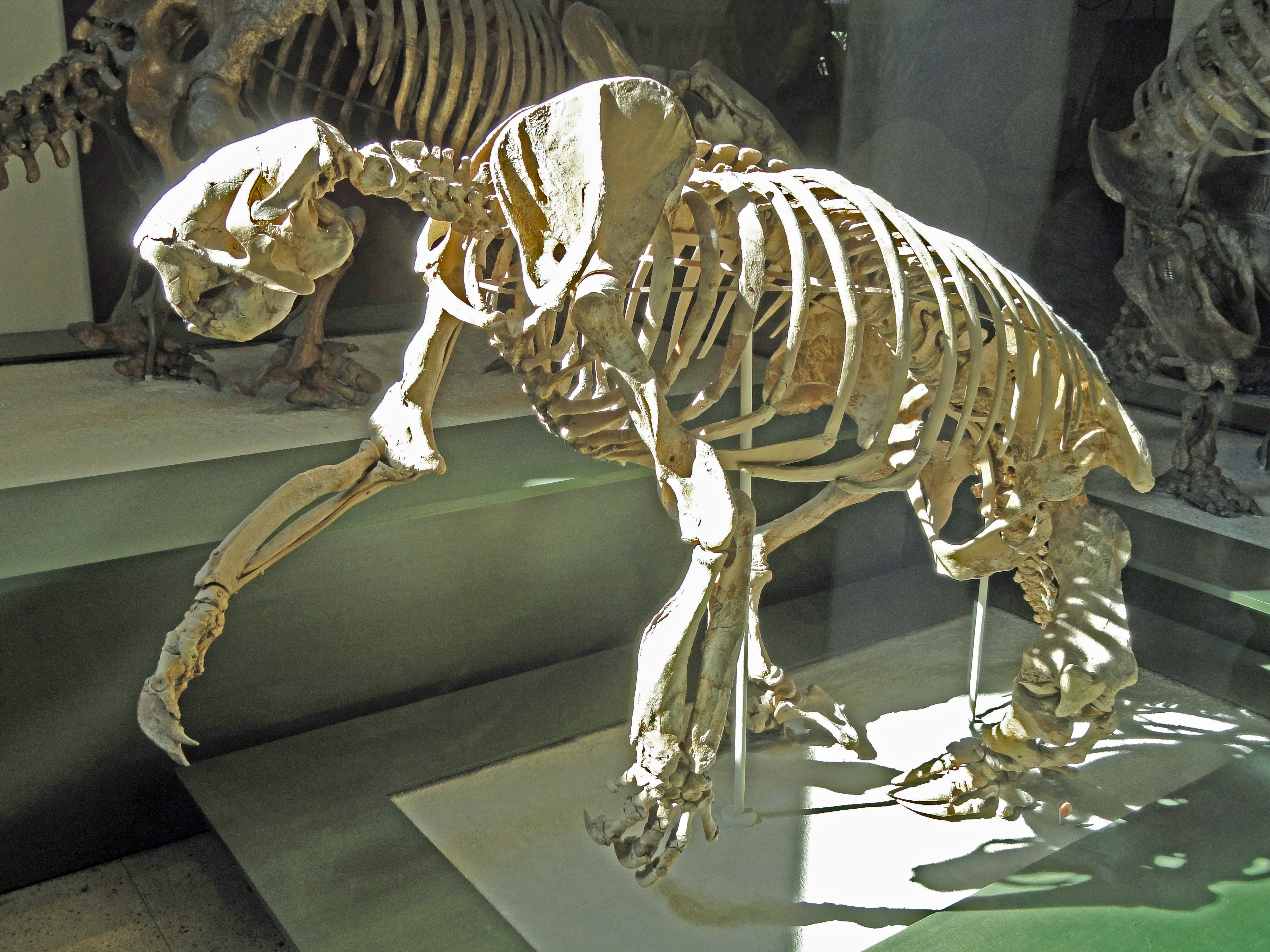 Megalonyx wheatleyi exhibit in the fossil collection of the American Museum of Natural History, Manhattan, New York City, New York, USA. WolfmanSF retouched this image to brighten shadows and darken highlights.